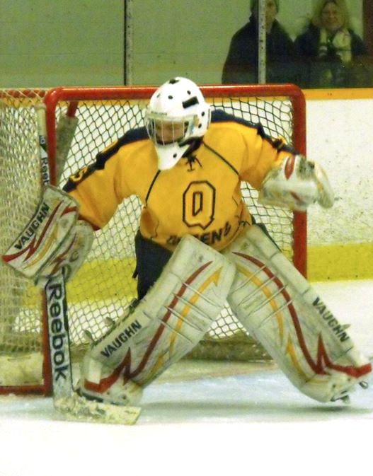 This photo was taken by Devan Mighton during the 2013-14 CIS women's season.